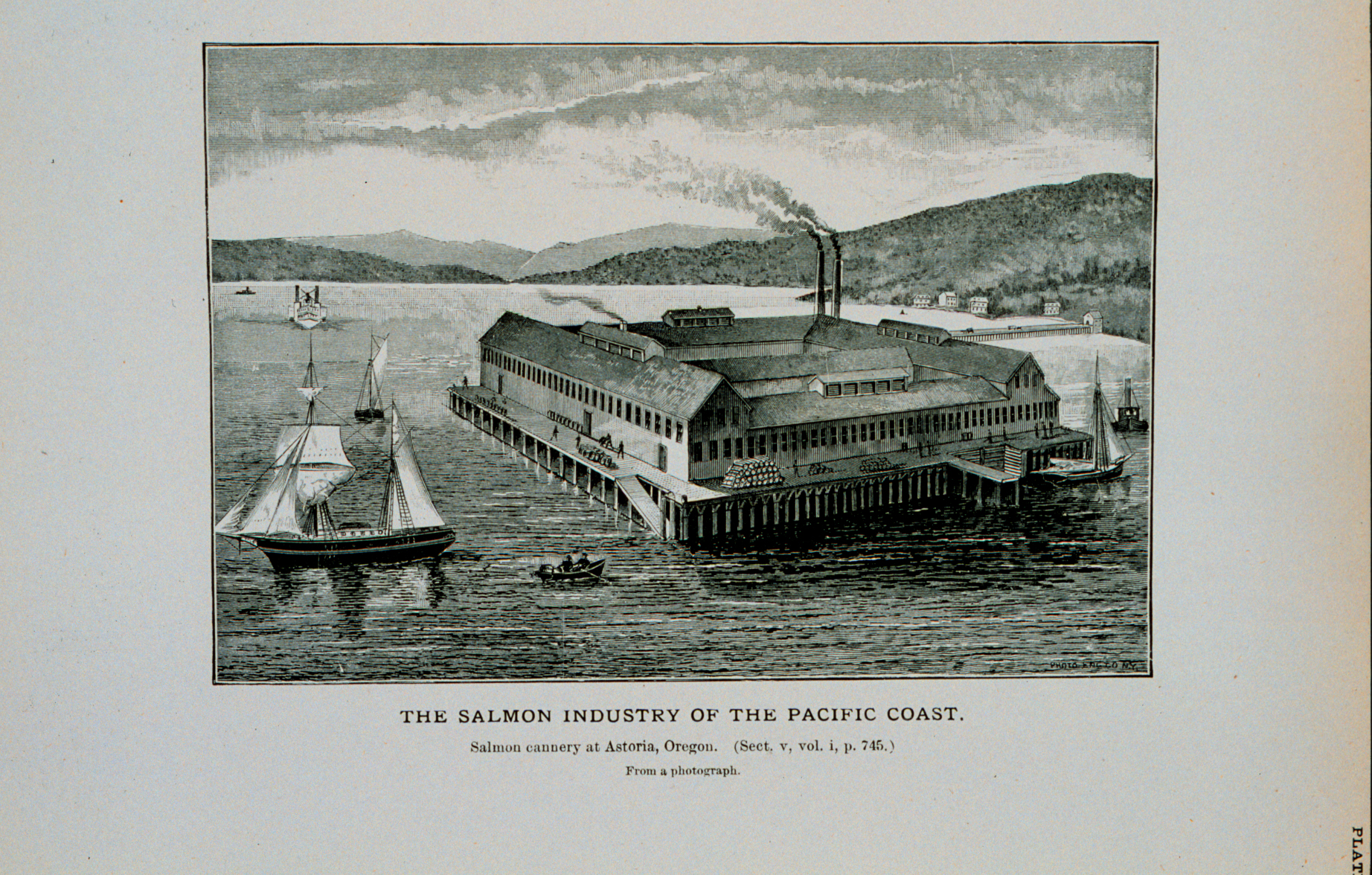 Salmon cannery at Astoria, Oregon From a photograph Image ID: figb0170, NOAA's Historic Fisheries Collection Credit: NOAA National Marine Fisheries Service